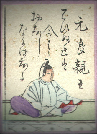 A portrait of Prince Motoyoshi; illustration from an uta-garuta playing card for Hyakunin Isshu, created in the Edo period.